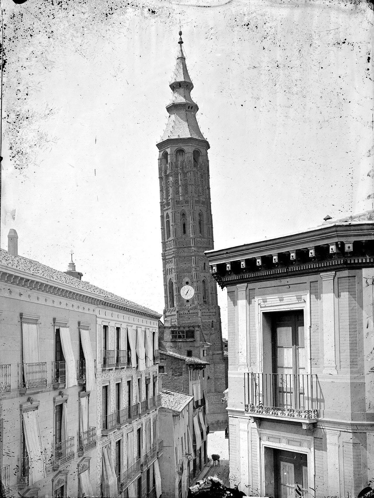 J. Laurent (Photographer), circa 1875. Old tower in the city of Zaragoza (Spain). This tower was demolished in 1892-1893. It was a clock tower, built of brick in the Mudejar style in the early sixteenth century.